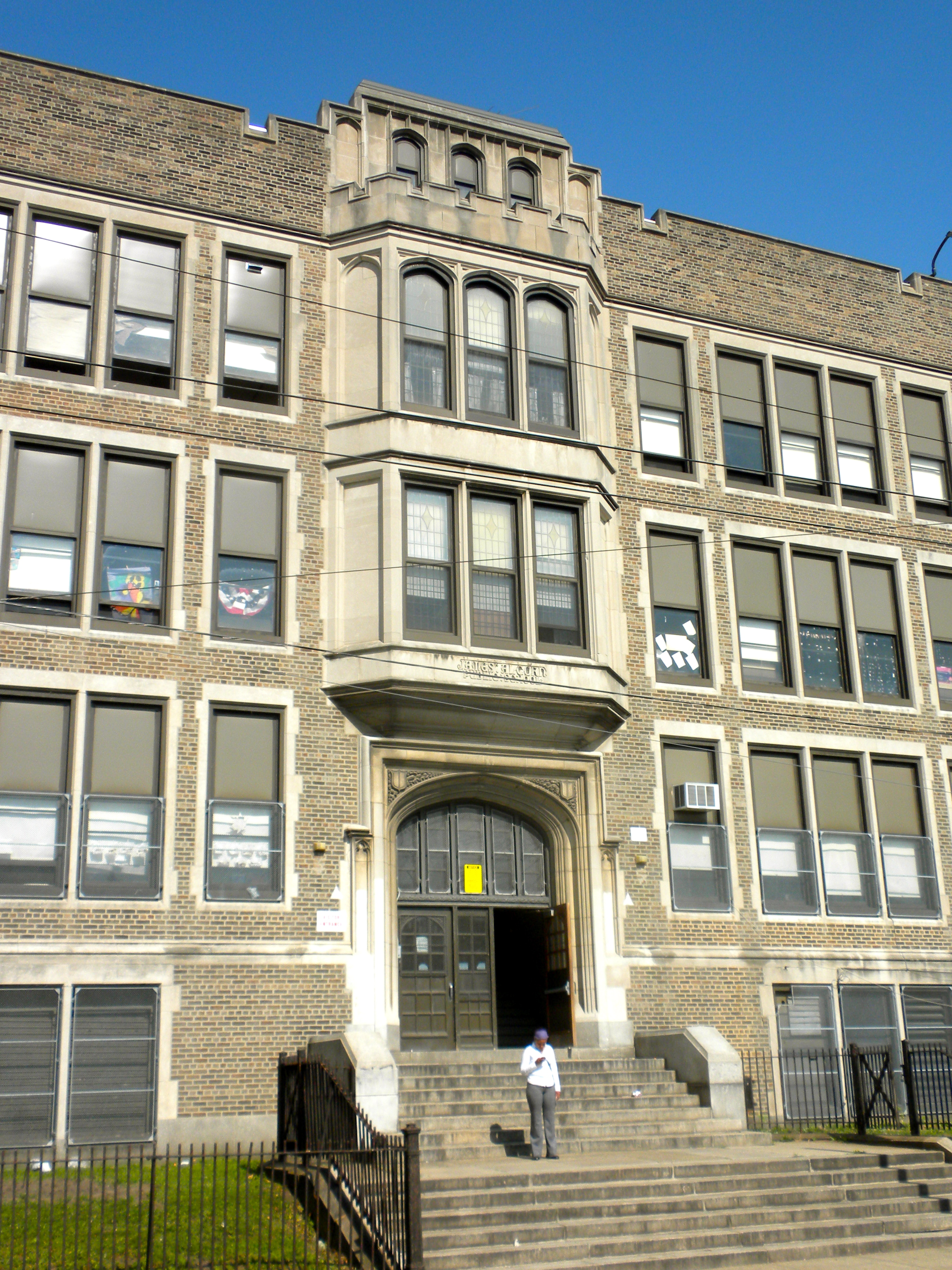 James Alcorn School on the NRHP since November 18, 1988. At 3200 Dickinson Street in the Grays Ferry neighborhood of south Philadelphia. Note that this is about a block north of the Charles Y. Audenreid HS, which is or was also on the NRHP.